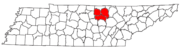 Locator map of the Cookeville Micropolitan Statistical Area in the northern part of the U.S. state of Tennessee.